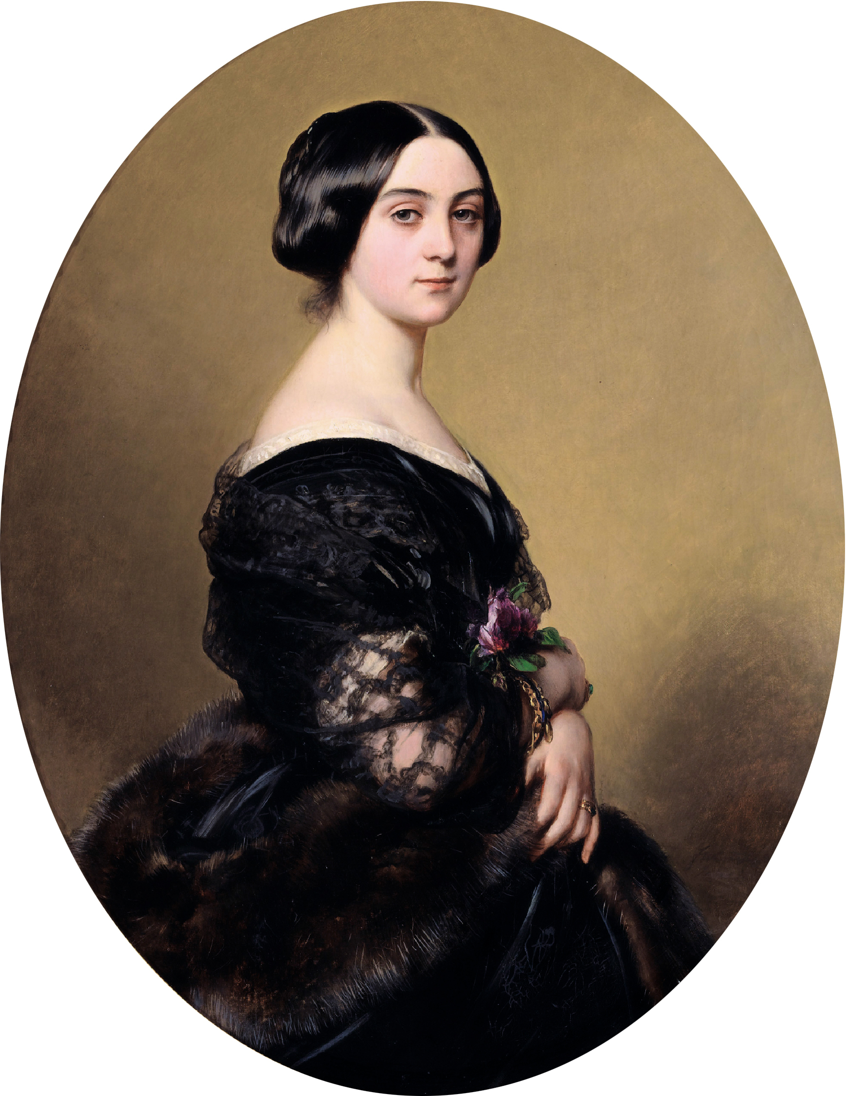 Baronne Henri Hottinguer, née Caroline Delessert